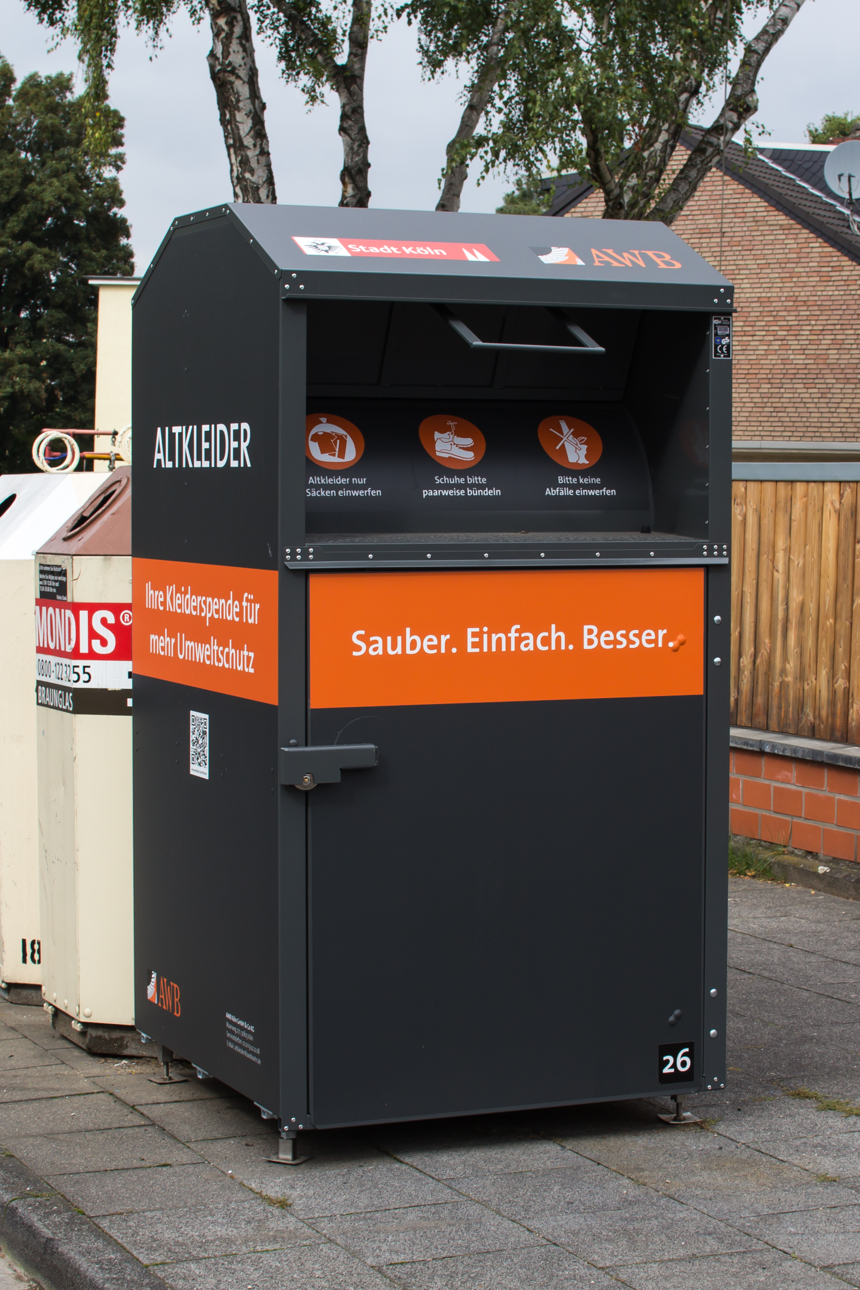 Textiles gathering box in Cologne, Germany